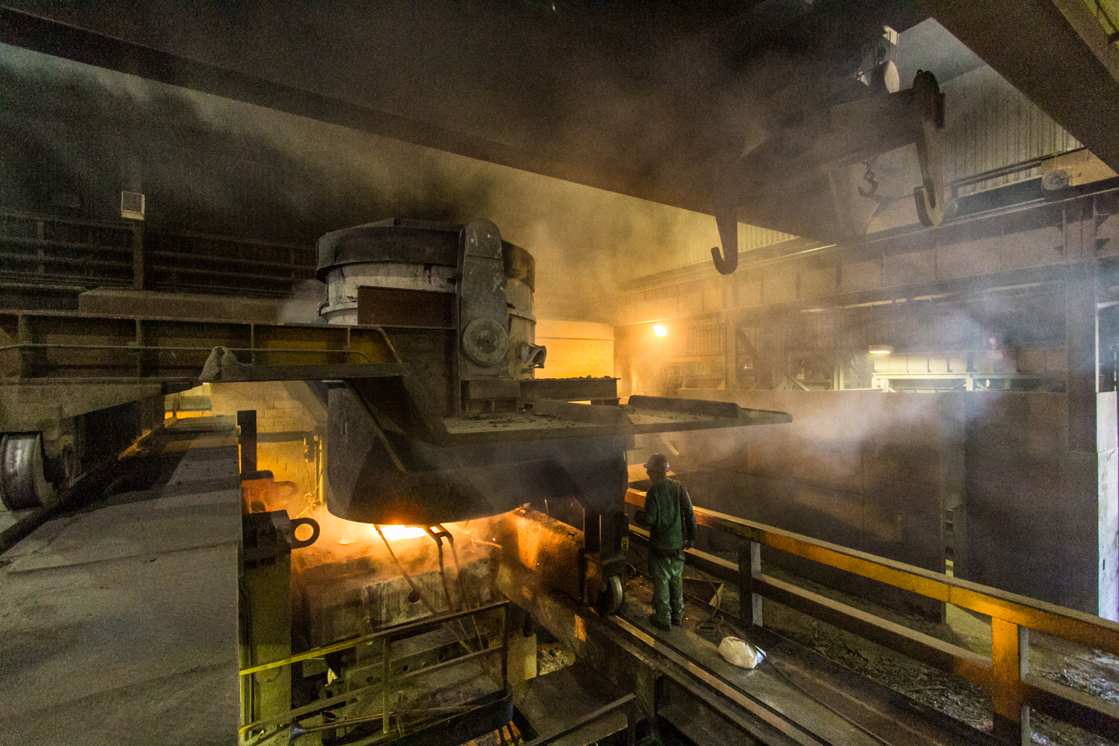 An example of how scrap is melted down and converted into SA Metal products